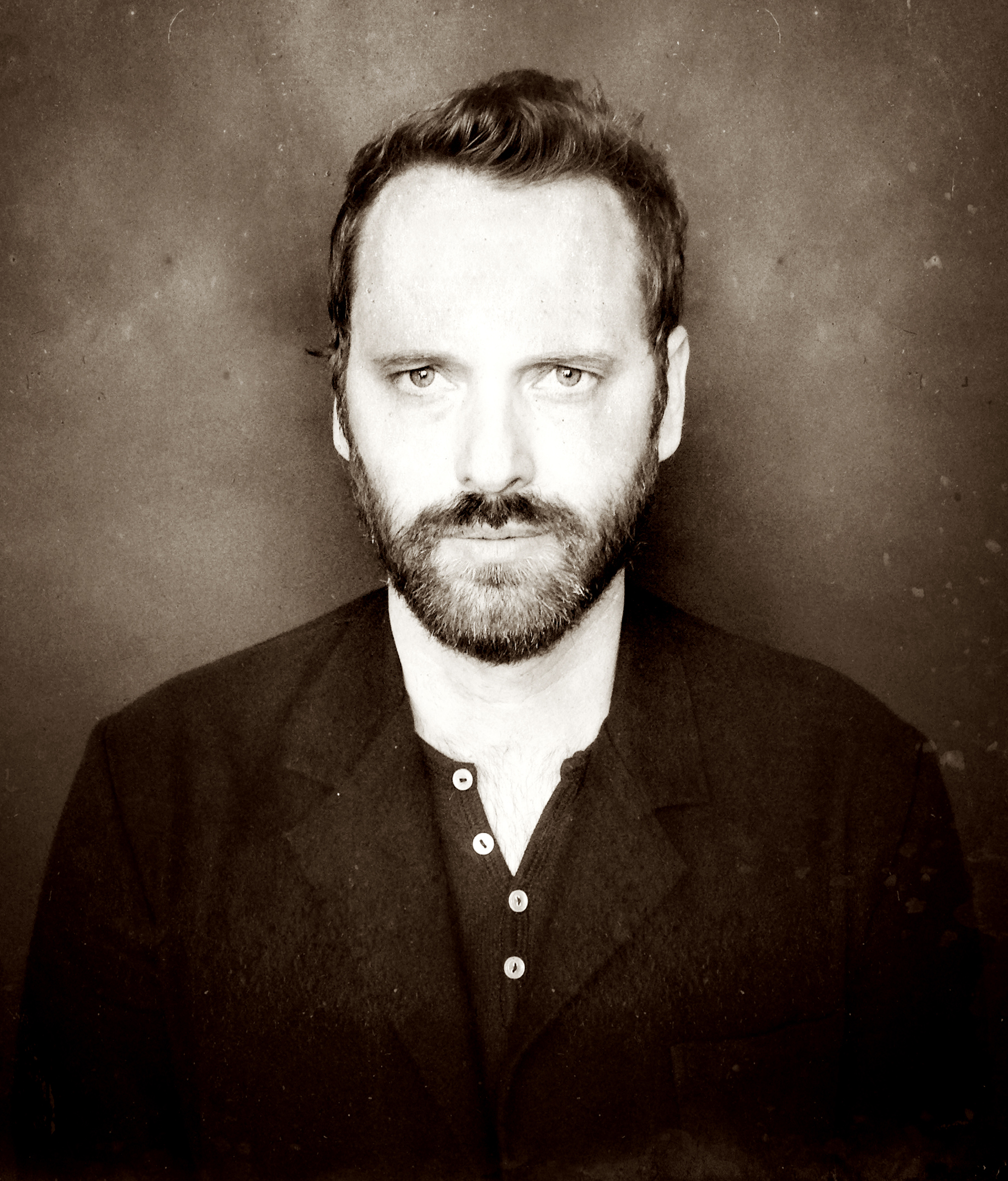 Dustin O'Halloran